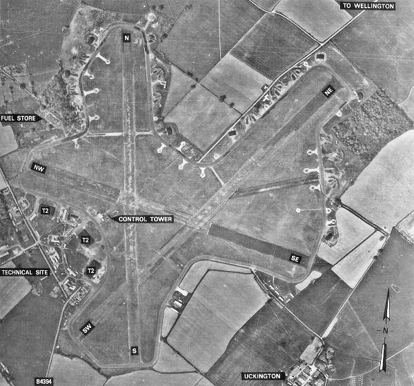 Aerial photograph of Atcham Airfield, England.